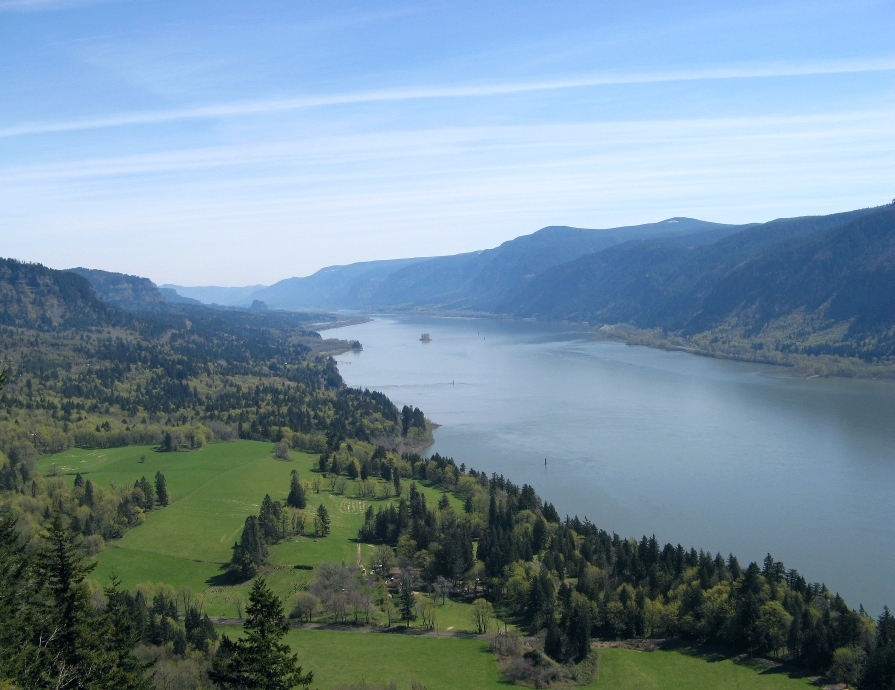 View of the Columbia River from Cape Horn Trail, facing east toward Beacon Rock (in distance on left)